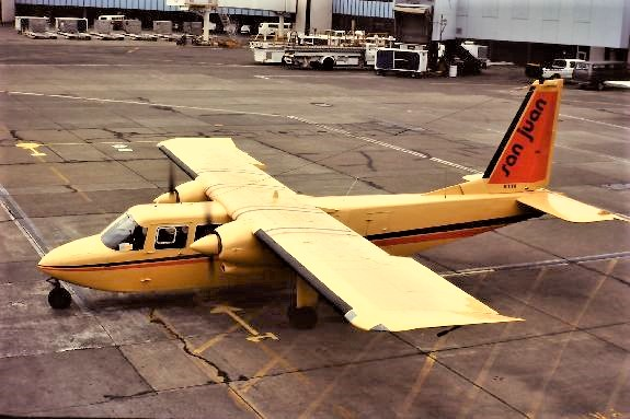 Manufacturer: Britten-Norman Designation: BN-2A (Islander) Airline: San Juan Airline Serial Number: N111VA